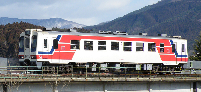 Diesel multiple unit type 36 of Sanriku Railway.